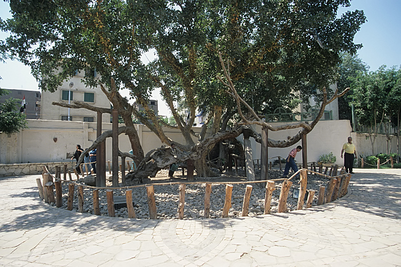 Virgin Mary tree, el-Matariya, Cairo, Egypt